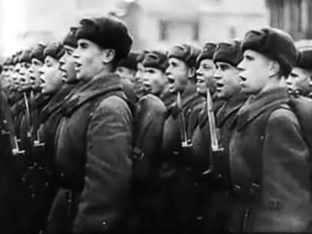 Still from Moscow Strikes Back, Soviet documentary of the Battle of Moscow. Directed by Ilya Kopalin. 1 of 4 films to win the 1943 Academy Award for Best Documentary.